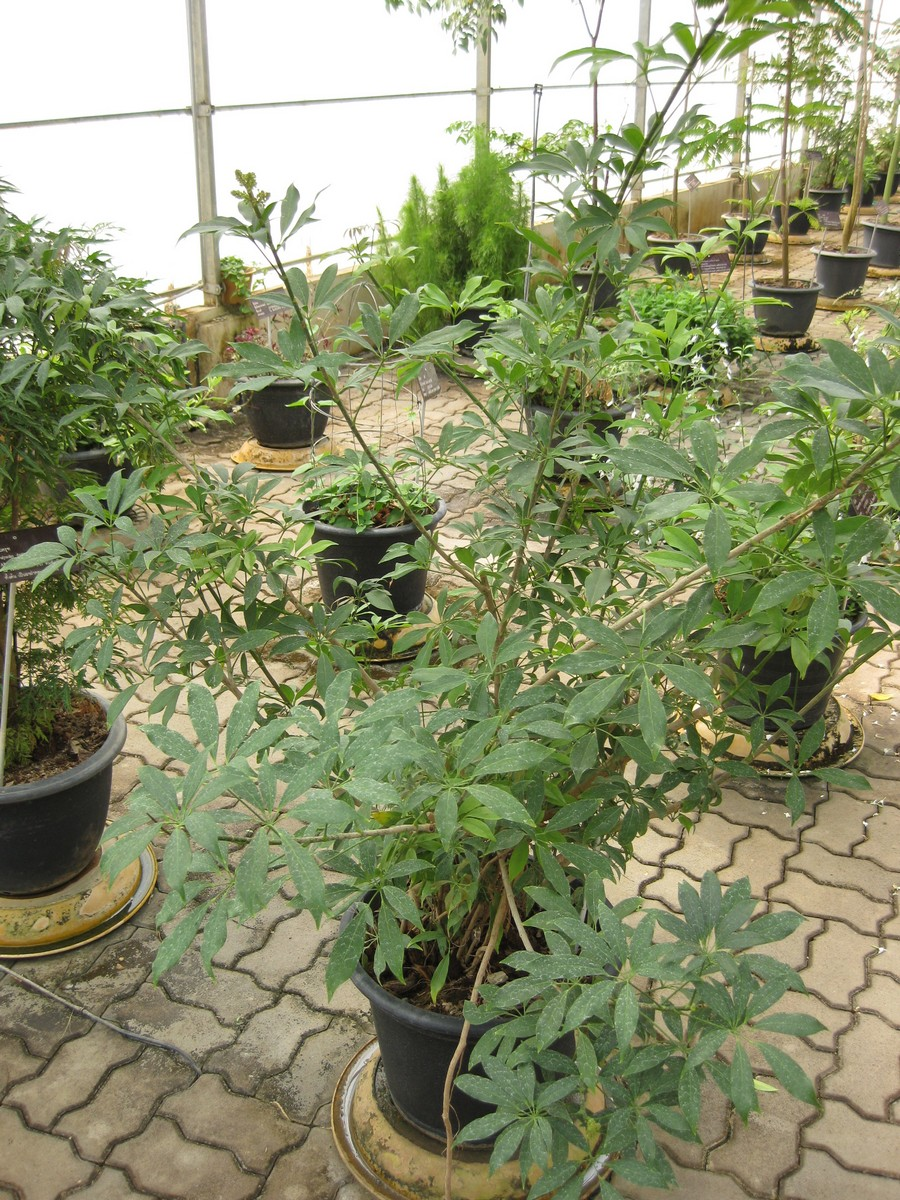 Schefflera leucantha Vig. Photographed at the Queen Sirikit Botanic Garden (Chiang Mai Province, Thailand) in March